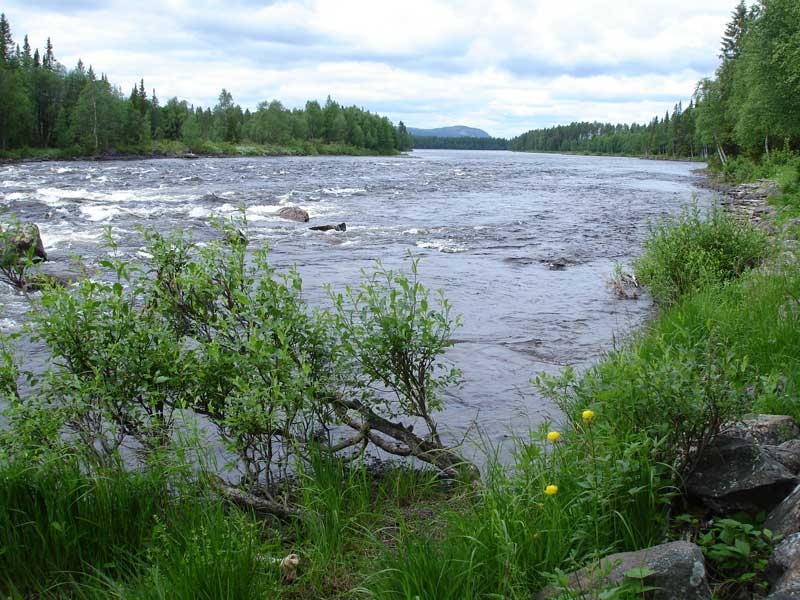 Storforsen rapids in the river Laisälven in Swedish Lapland, about five kilometers upstream the mouth in river Vindelälven.